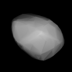 3D convex shape model of 533 Sara, computed using light curve inversion techniques. J. Hanuš, J. Ďurech, M. Brož, B. D. Warner (June 2011). "A study of asteroid pole-latitude distribution based on an extended set of shape models derived by the lightcurve inversion method". Astronomy and Astrophysics 530: A134. ISSN 0004-6361. arXiv